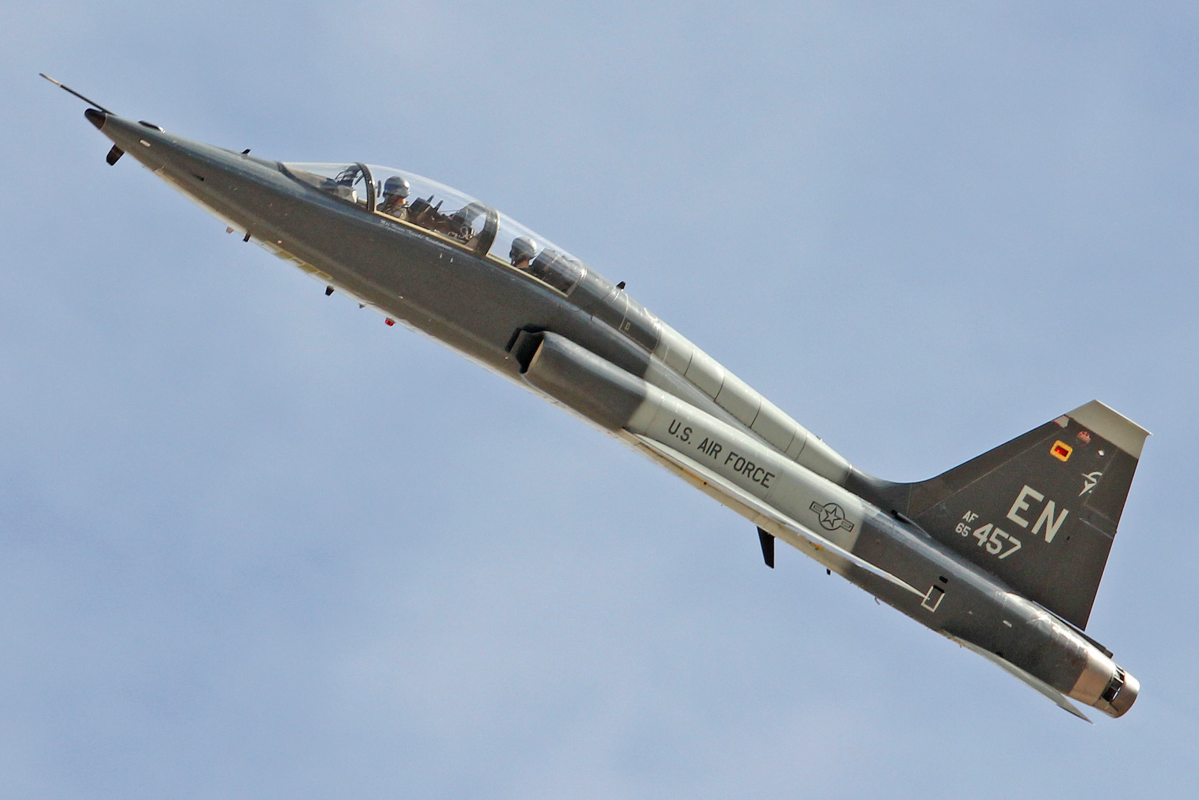 c/n N.5876. Full US military serial 65-10457. Operated by the 88th Flying Training Sqn, part of the 80th Flying Training Wing based at Sheppard AFB, TX. Departing on a mission as part of Red Flag 16-2. Nellis AFB, NV, USA. 1st March 2016